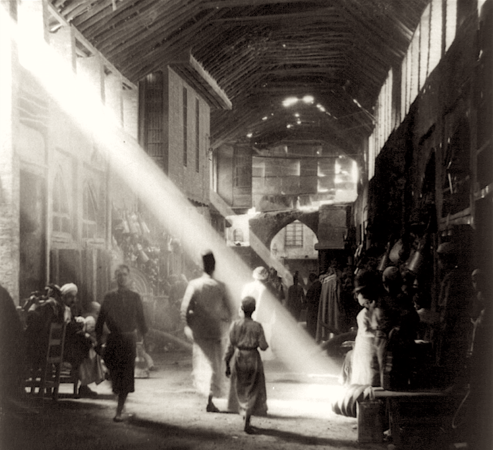 The Al-Safafir (Coppersmiths) Market, Baghdad, photographed c1930s